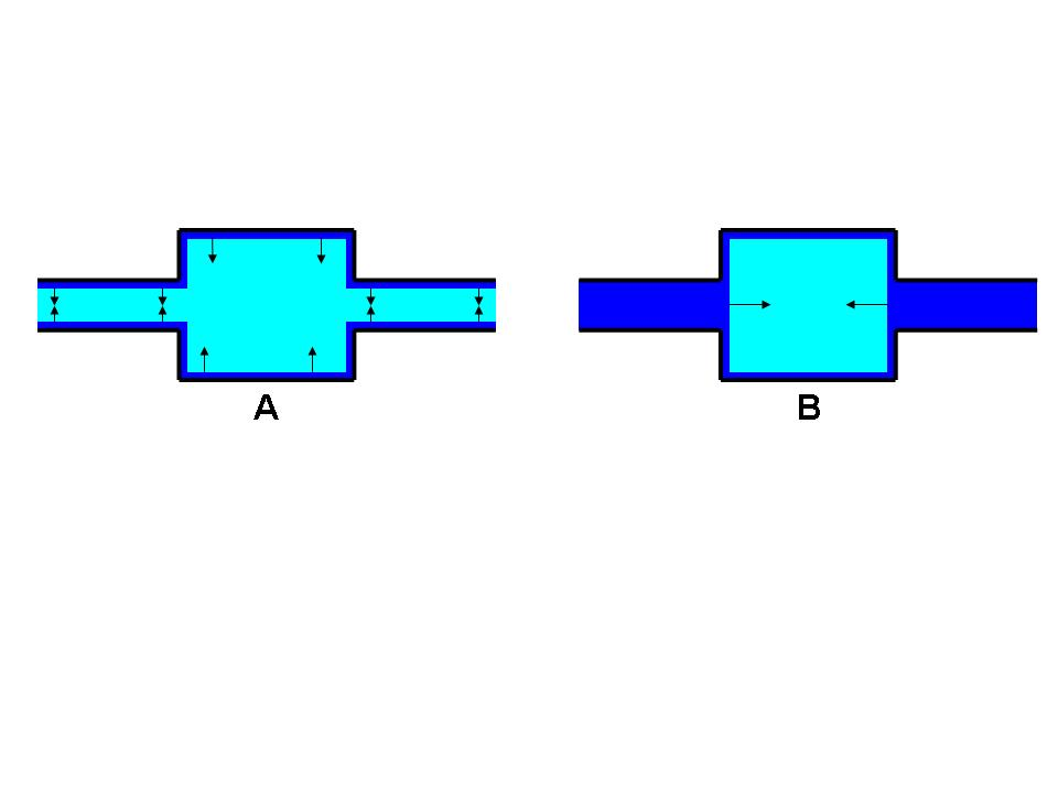 Light blue shows the frozen phase and dark blue shows the molten phase. The arrows show the the direction of the advancing molten phase during melting